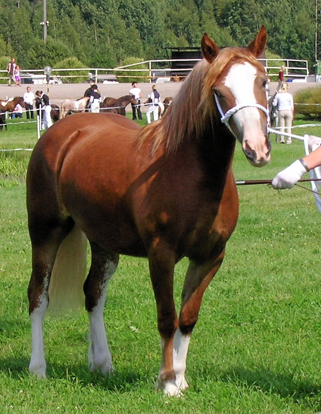 3 years old Welsh C mare "Pontardawe Nerys" in pony show in Finland. She was the best young pony of her breed.